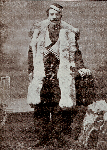 Greek fireman with pelt from jakals